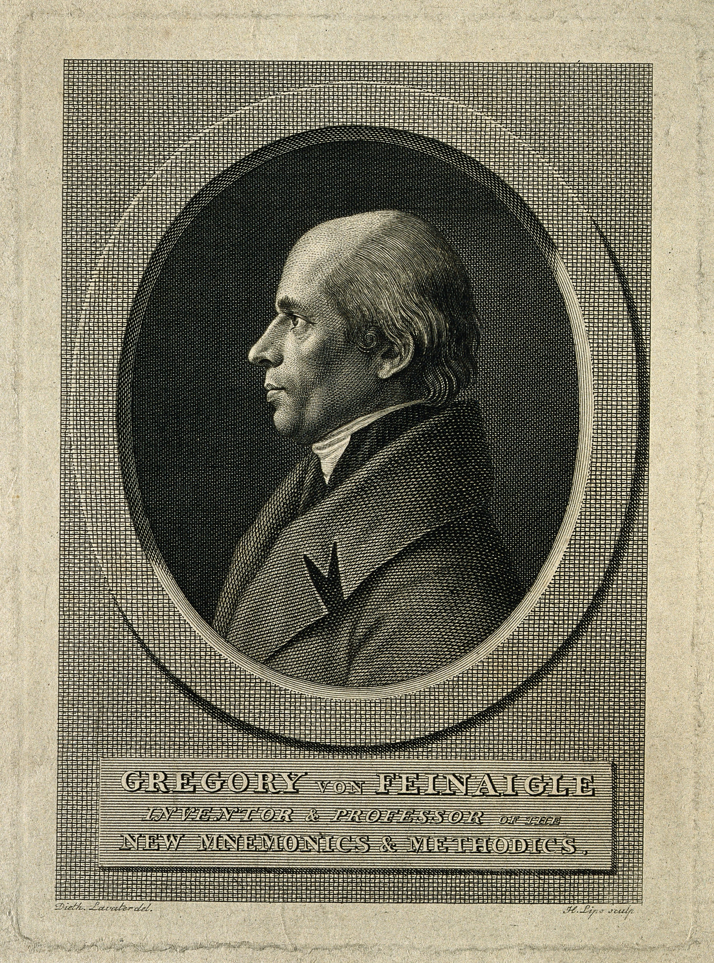 Gregor von Feinaigle. Line engraving by J. H. Lips after D. Lavater. Iconographic Collections Keywords: portrait prints; engravings; D. Lavater; J. H. Lips; Gregor von Feinaigle